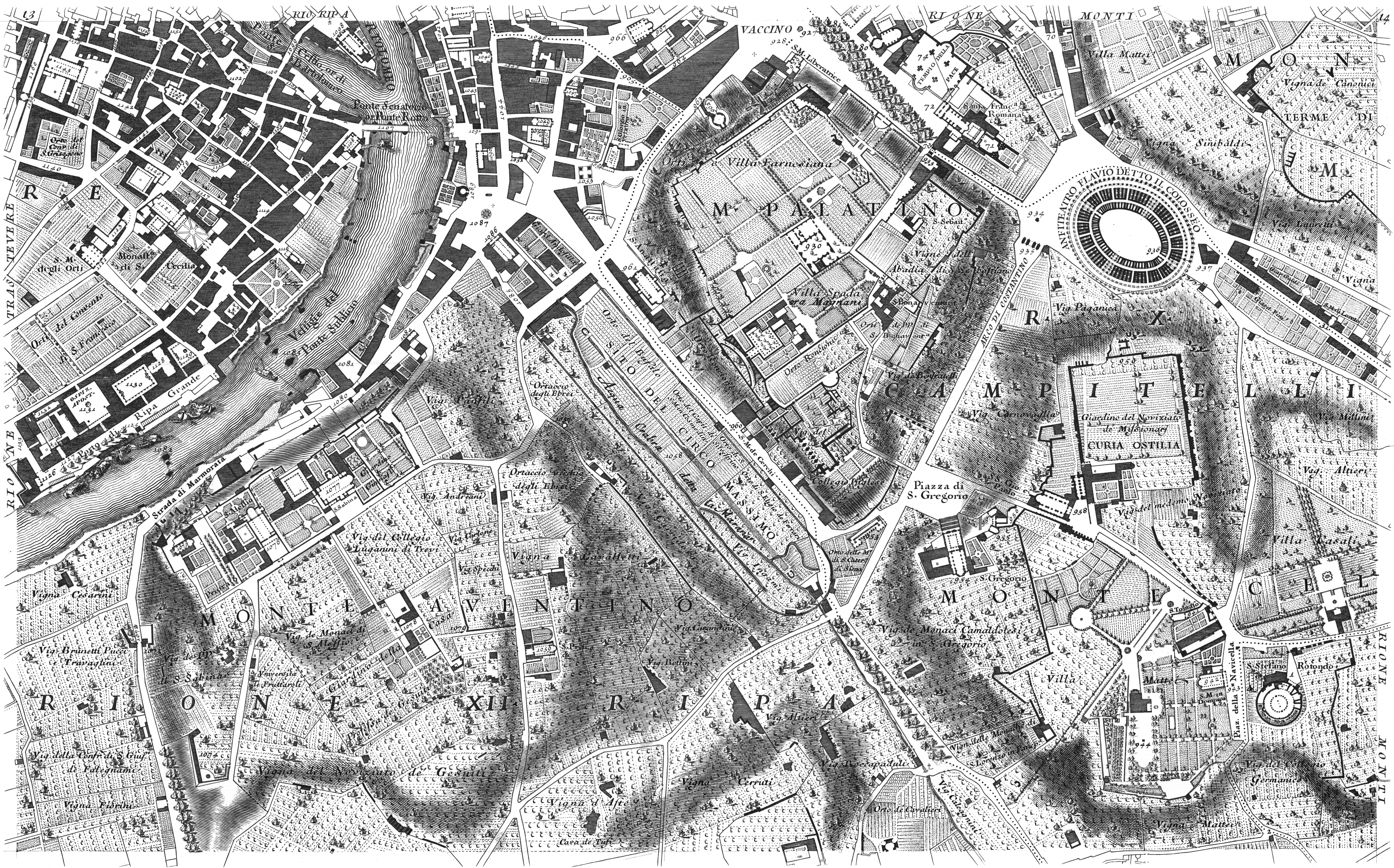 The New Plan of Rome by Giambattista Nolli part 8/12